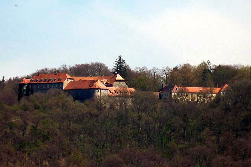 Schwanberg Castle on top of Mt. Schwanberg near Kitzingen, Bavaria, Germany